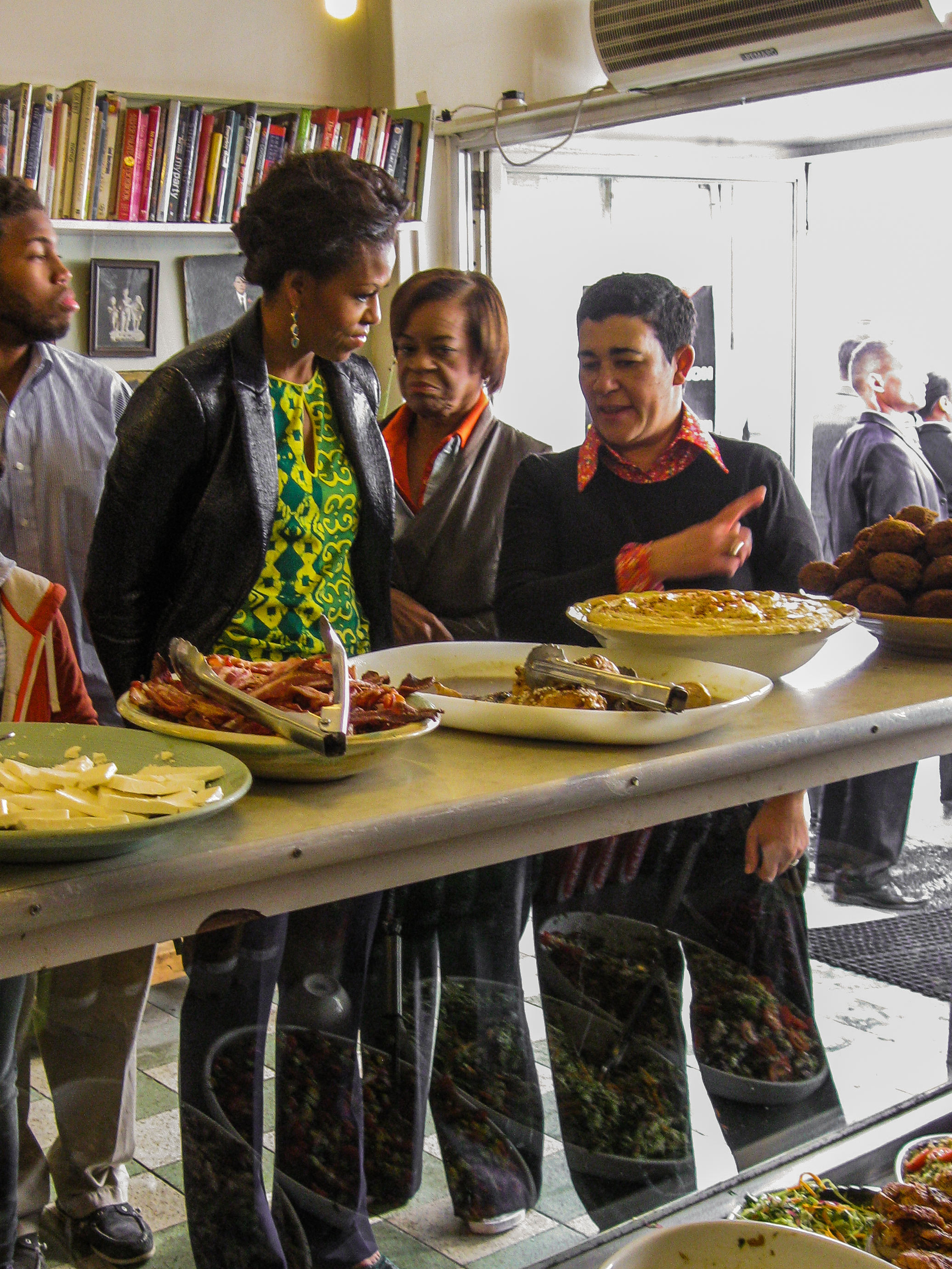 Karen Dudley discussing the different salads and meals on display for lunch at The Kitchen, Cape Town to 1st Lady Michelle Obama.